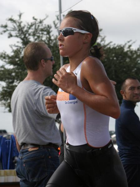 Nicole Hofer at the 2009 Longhorn Ironman triathlon